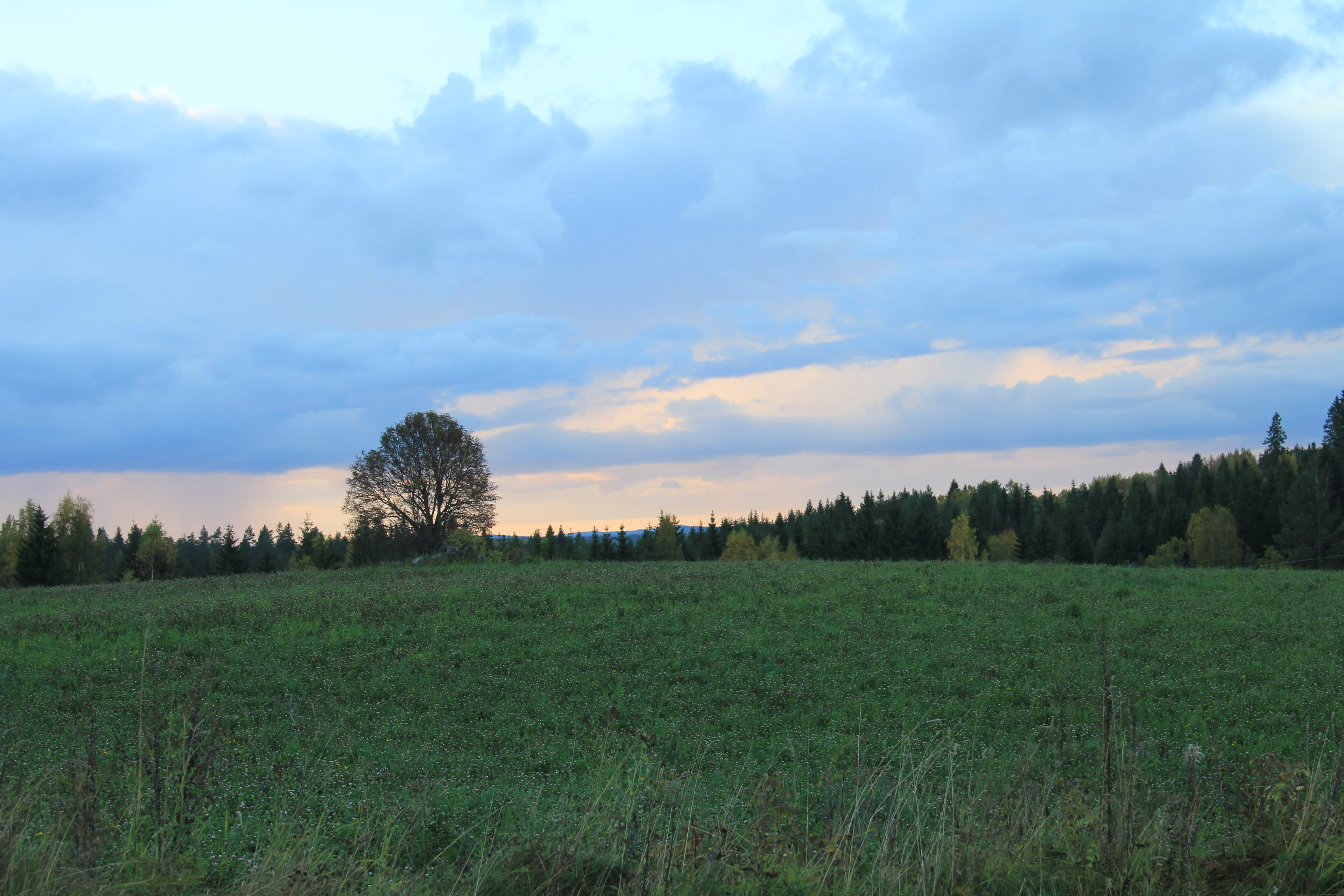 Nikkilänmäentie, Leppävirta, Finland. - Museum road. Mid-part of road. View to west-northwest.